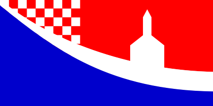 Flag of Posušje